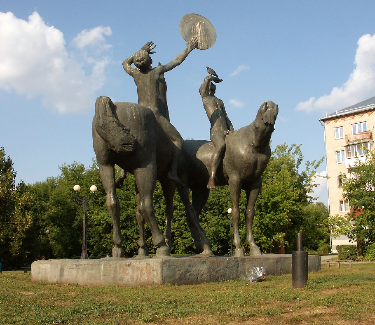 Statue near the origin of Don River